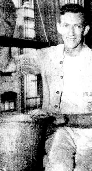 Australian painter Eric Smith (1919–2017) working with a bucket and rag instead of a paint brush as he works at his job as a handyman at the Sydney city store of David Jones.